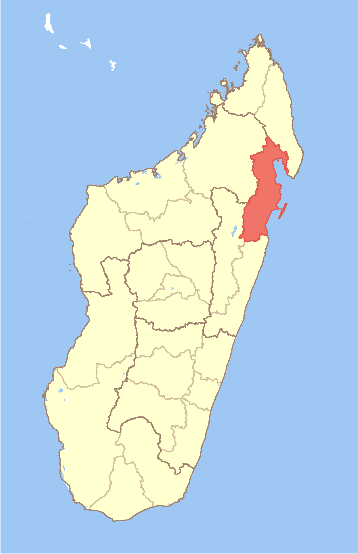 Map of Madagascar with Analanjirofo region highlighted